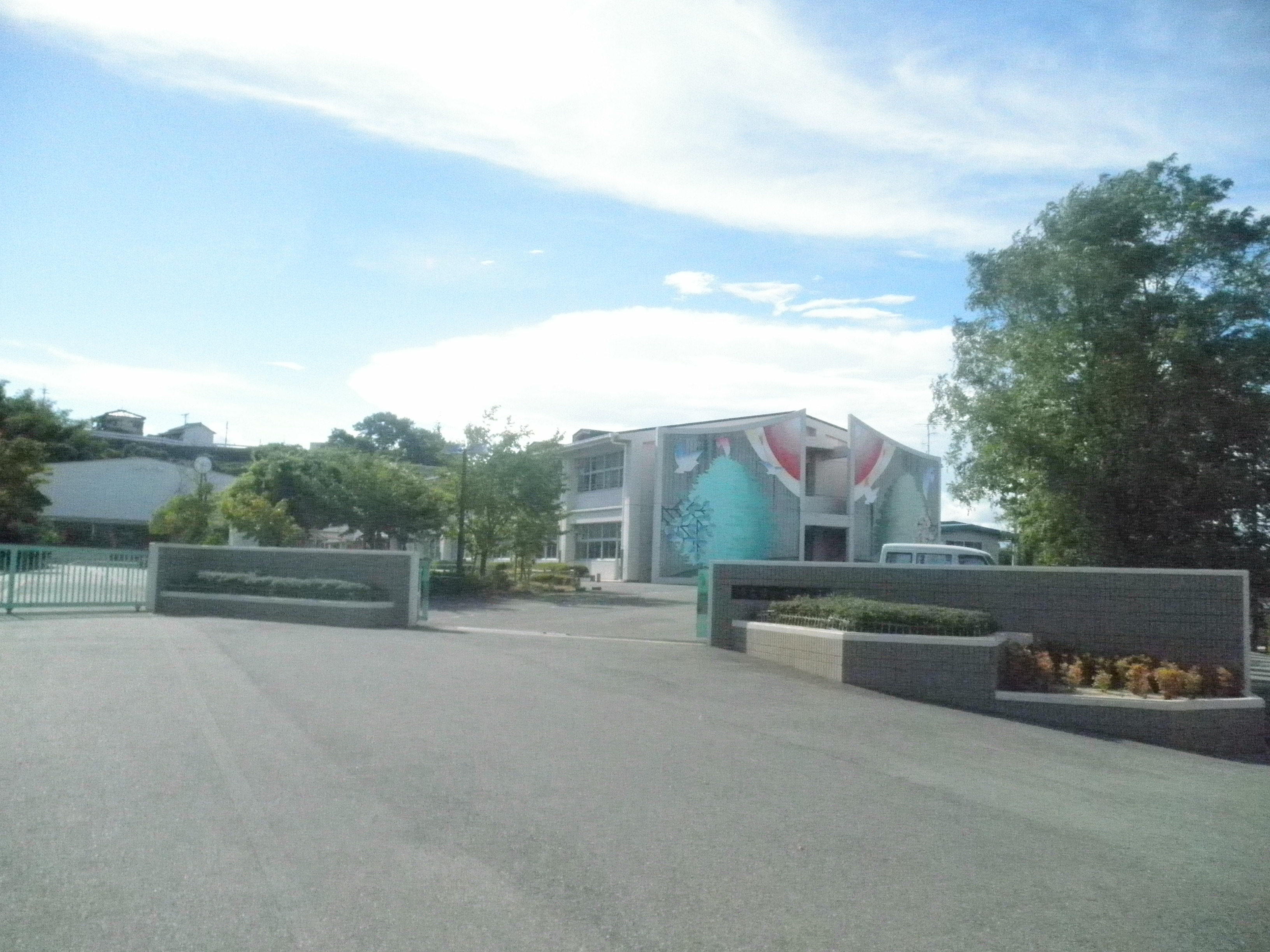 Midorigoaka Elementary School